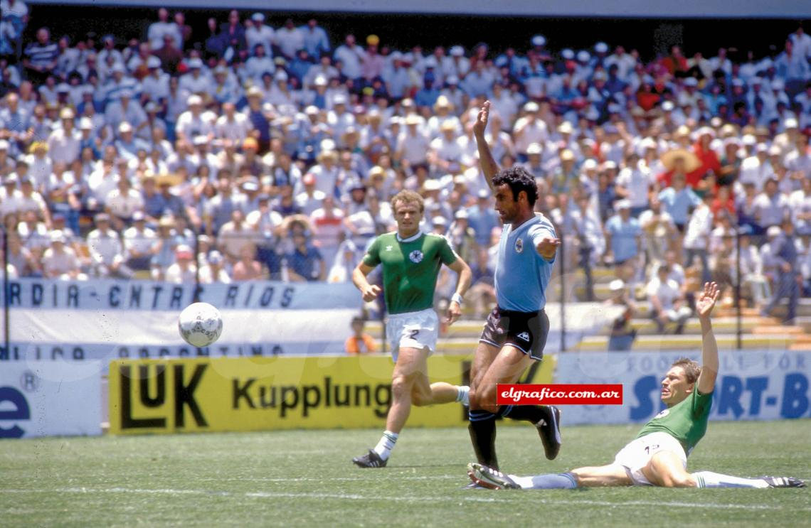 Uruguayan forward Antonio Alzamendi scoring v West Germany at the FIFA WC